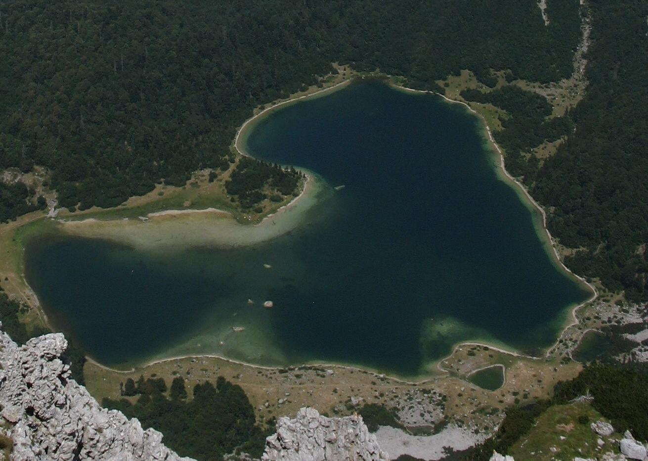 Trnovačko lake from Trnovački Durmitor in Montenegro)